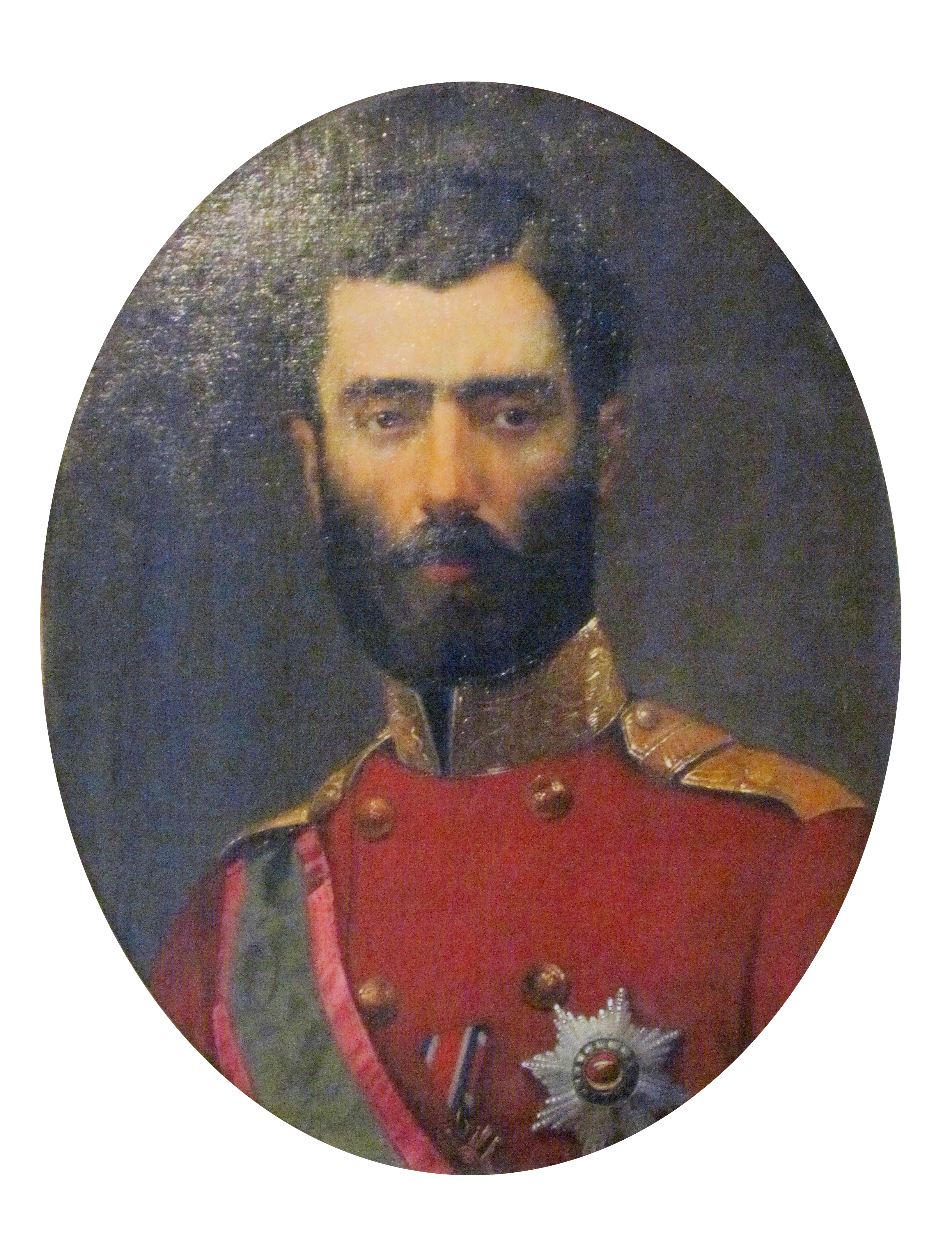 Stevan Todorović, Portrait of Prince Mihailo Obrenović, Princess Ljubica's Residence